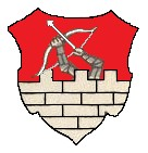 Rodovy erb Dacickych z Heslova